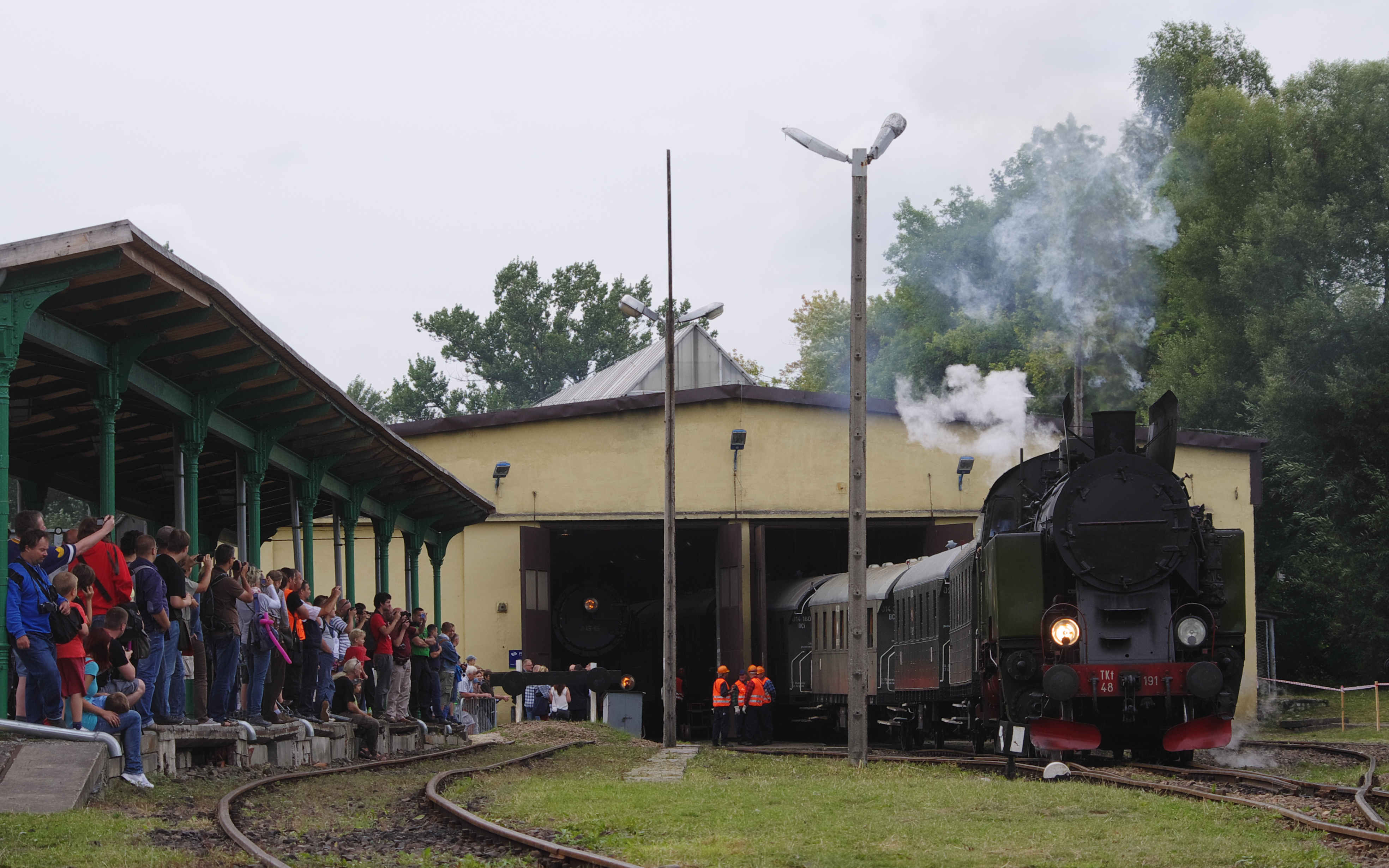 Parowozjada - spectators watching the TKt48-191 locomotive shunting a train.